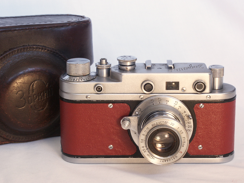 Zorki S. Photo by camerafiend.